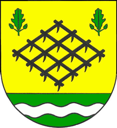 Coat of arms of the municipality Eggstedt in Schleswig-Holstein, Germany.